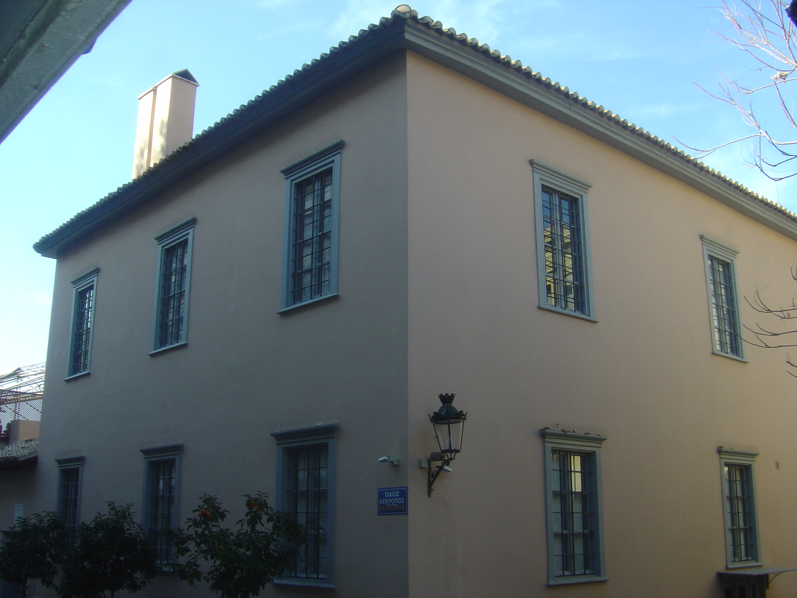 George Finlay's house in Plaka, Athens. Built prior to 1835